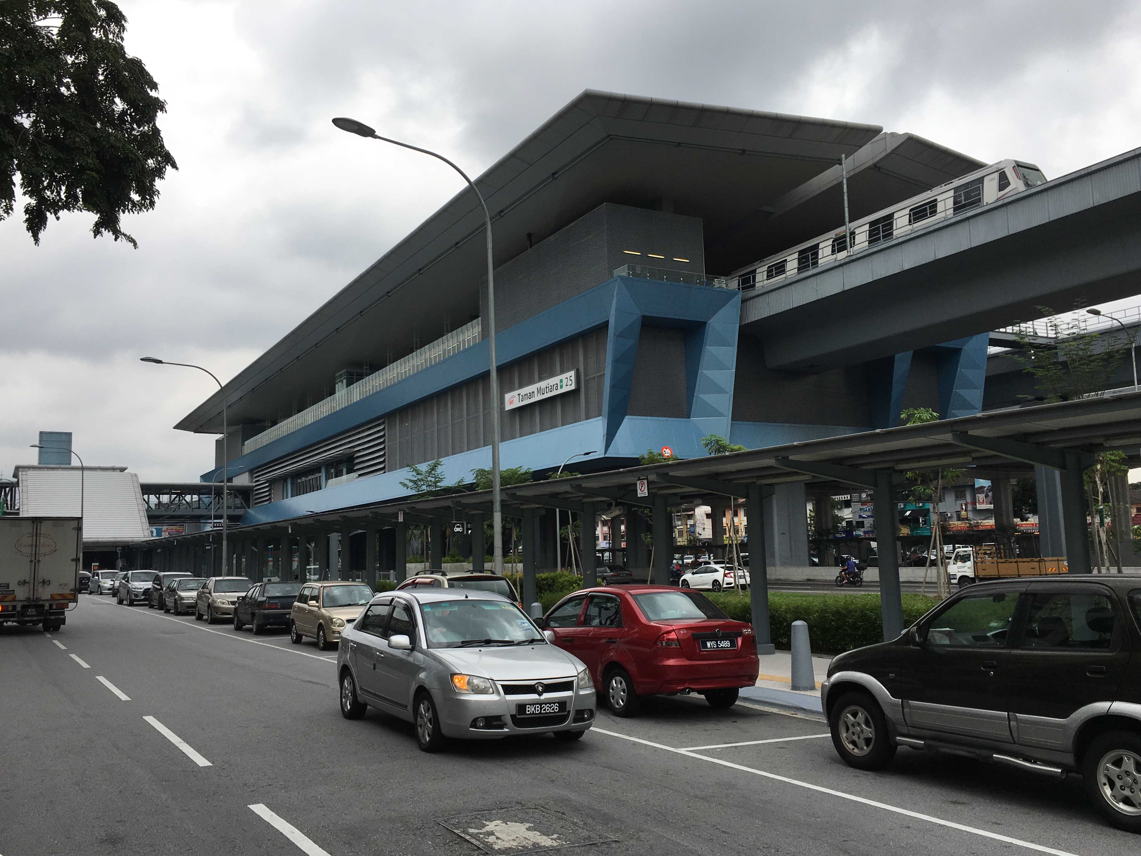 View of the Taman Mutiara MRT Station from Jalan Mutiara Timur.